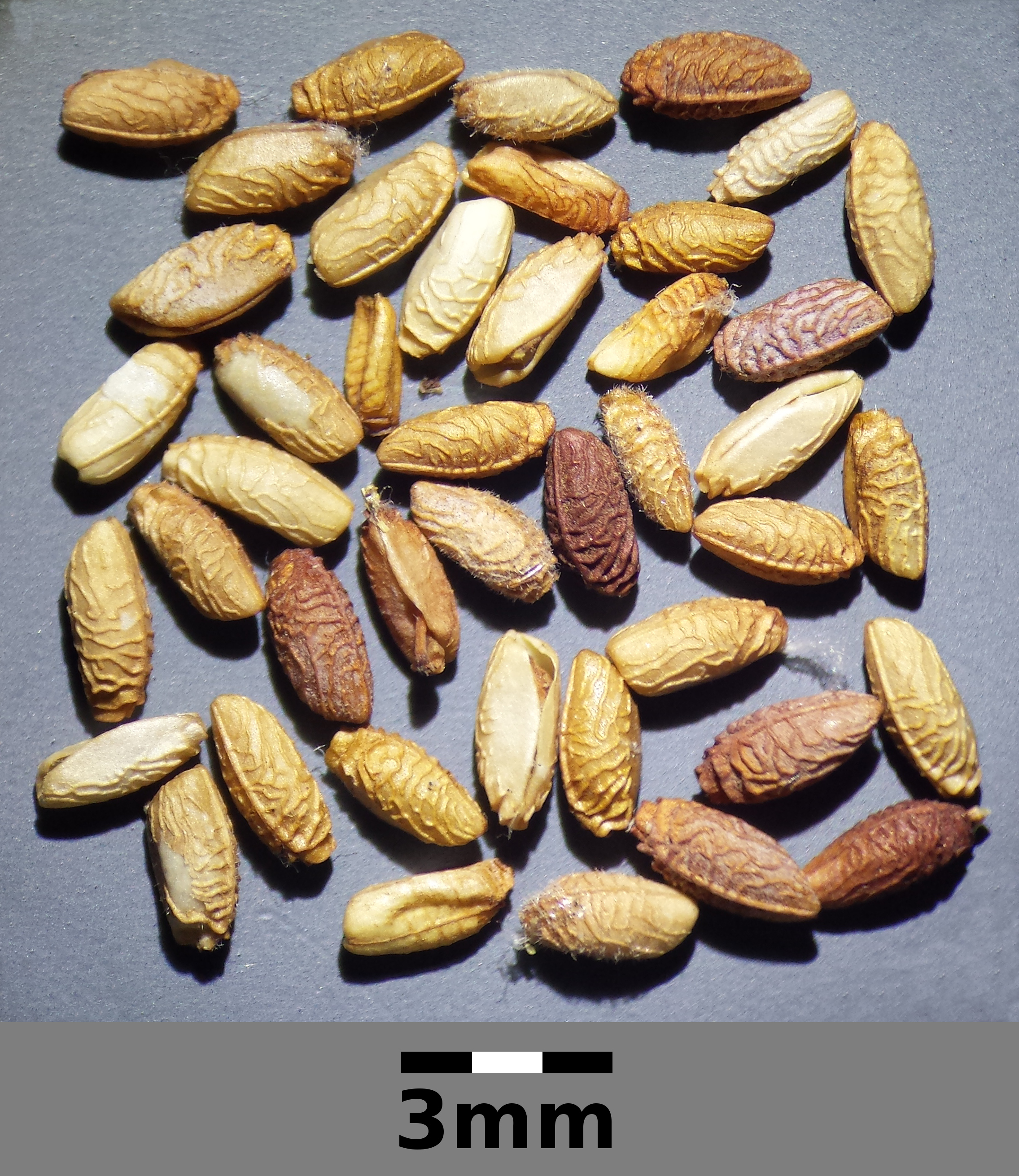 Capsules with one seed Taxon: Geranium purpureum (sensu Fischer et al. EfÖLS 2008 ISBN 978-3-85474-187-9) Location: Floridsdorf rail station, Vienna-Floridsdorf - ca. 160 m a.s.l. Habitat: ballast